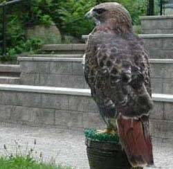 Red-tailed hawk from USGS Source: USGS National Wildlife Health Center